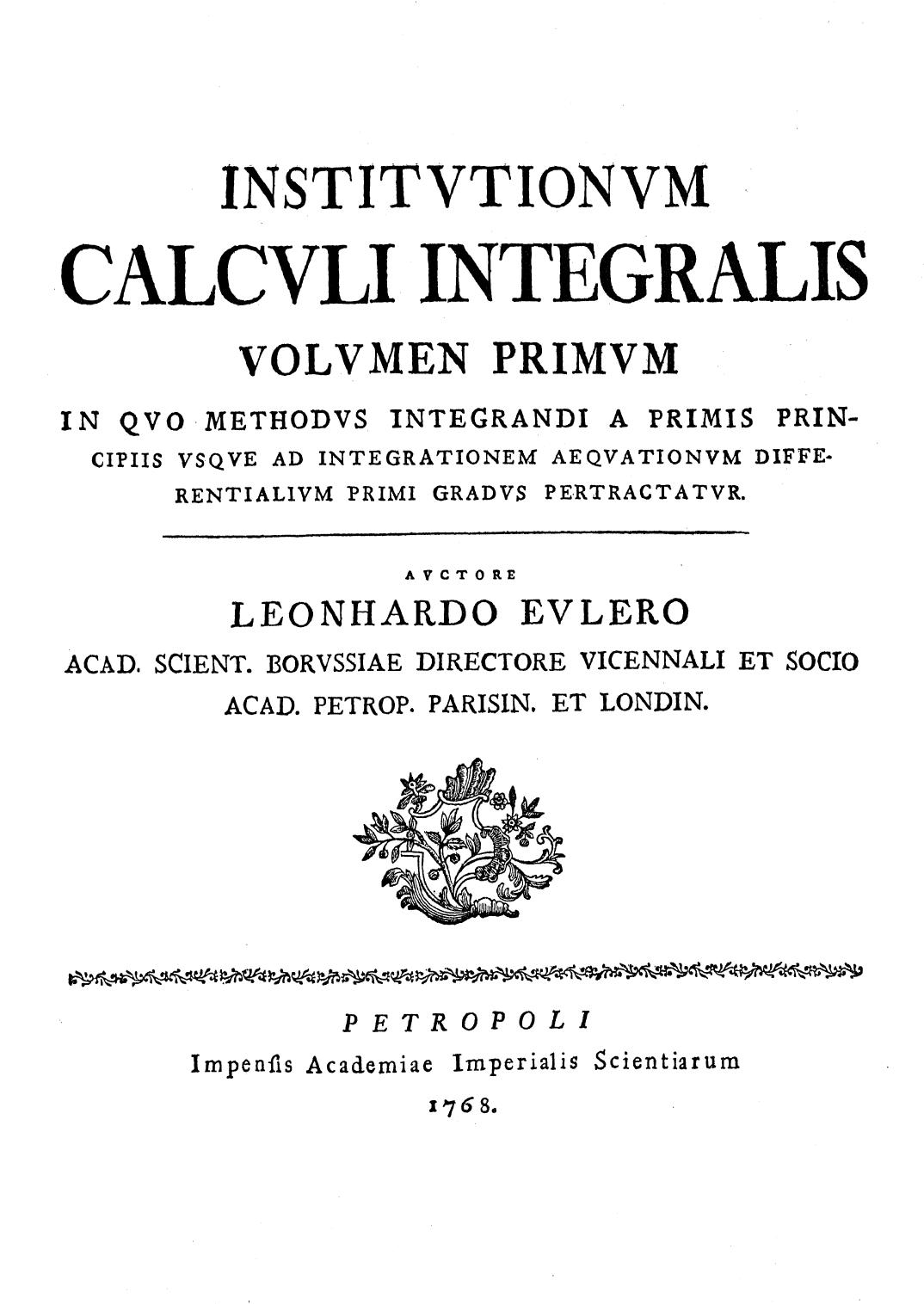 Scan of first page of L. Eulers book Institutionem Calculi Integralis Vol 1